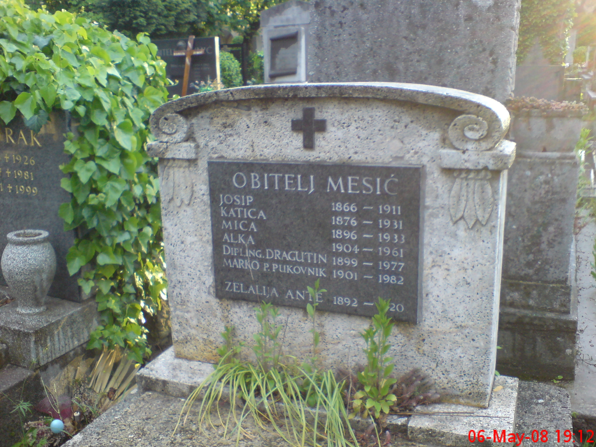 Mesic Marko